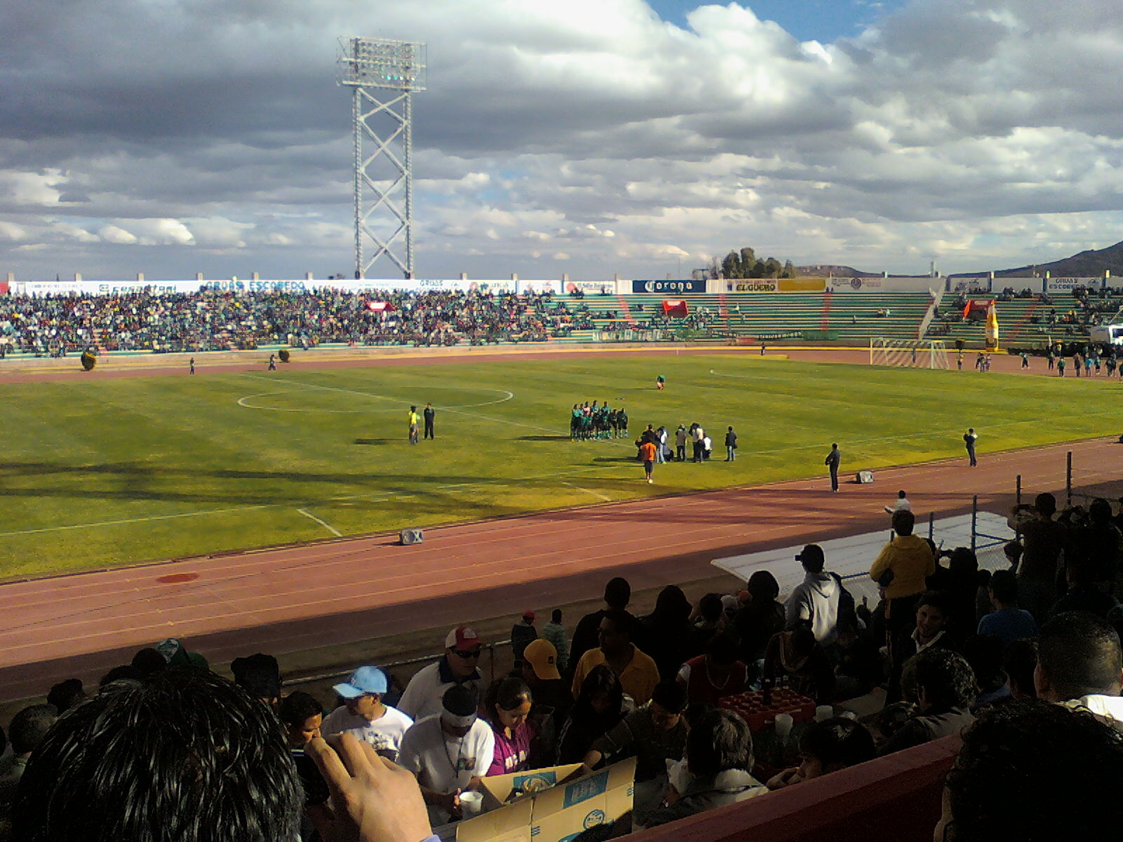 Estadio Francisco Villa